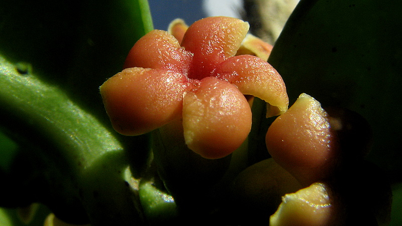 Marsdenia hilariana E. Fourn.